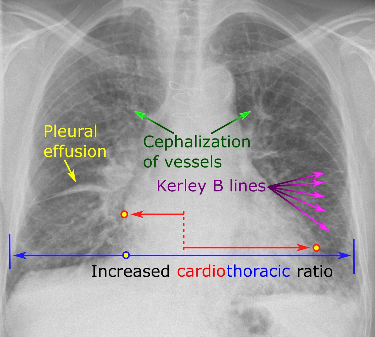 edit Chest radiograph of an 83 year old man with previous coronary artery bypass surgery and multiple percutaneous coronary interventions, now presenting with labored breathing. It shows distinct Kerley B lines, as well as an enlarged heart, somewhat dilated pulmonary blood vessels and minor pleural effusion as seen for example in the right horizontal fissure. Yet, there is no obvious lung edema. Overall, this indicated intermediate severity (stage II) congestive heart failure.